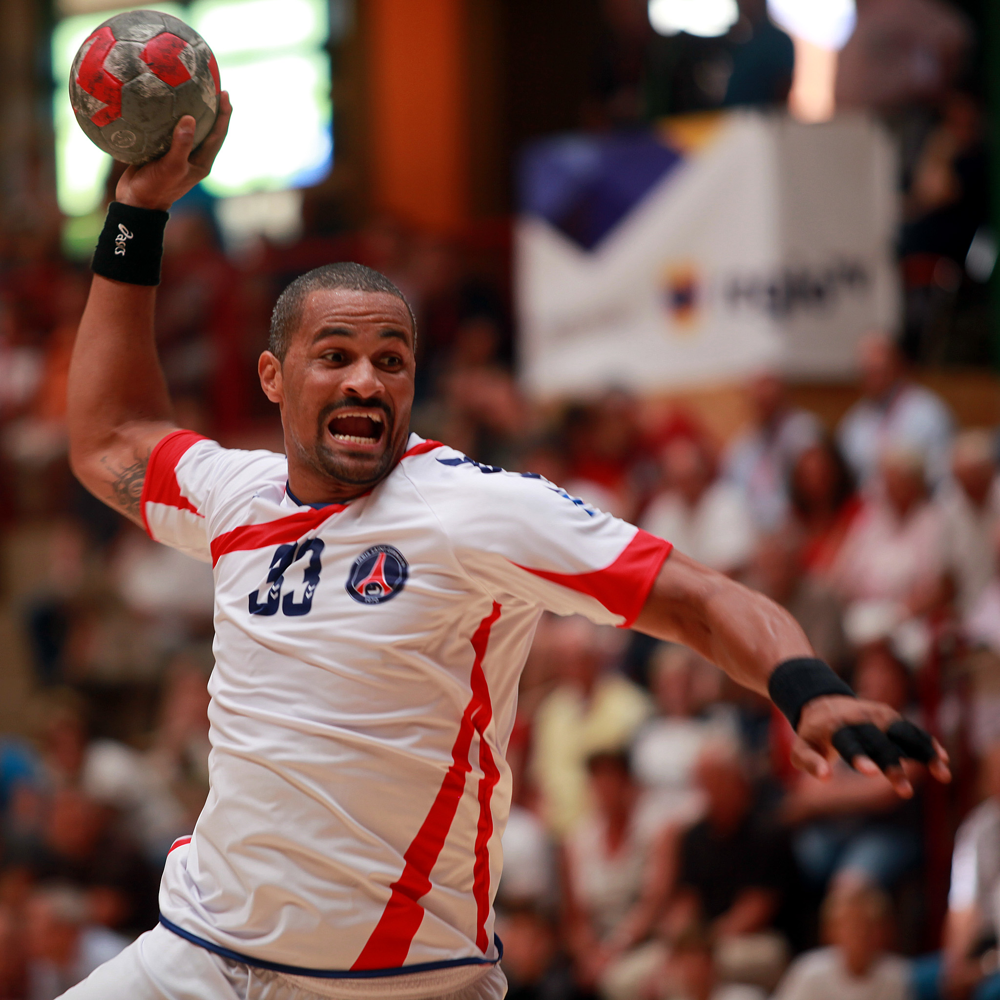 Didier Dinart, French handball player from Paris Saint-Germain Handball on August 20th, 2012 in Ehingen (Germany), during the EVFH-Cup (formerly known as Schlecker Cup).